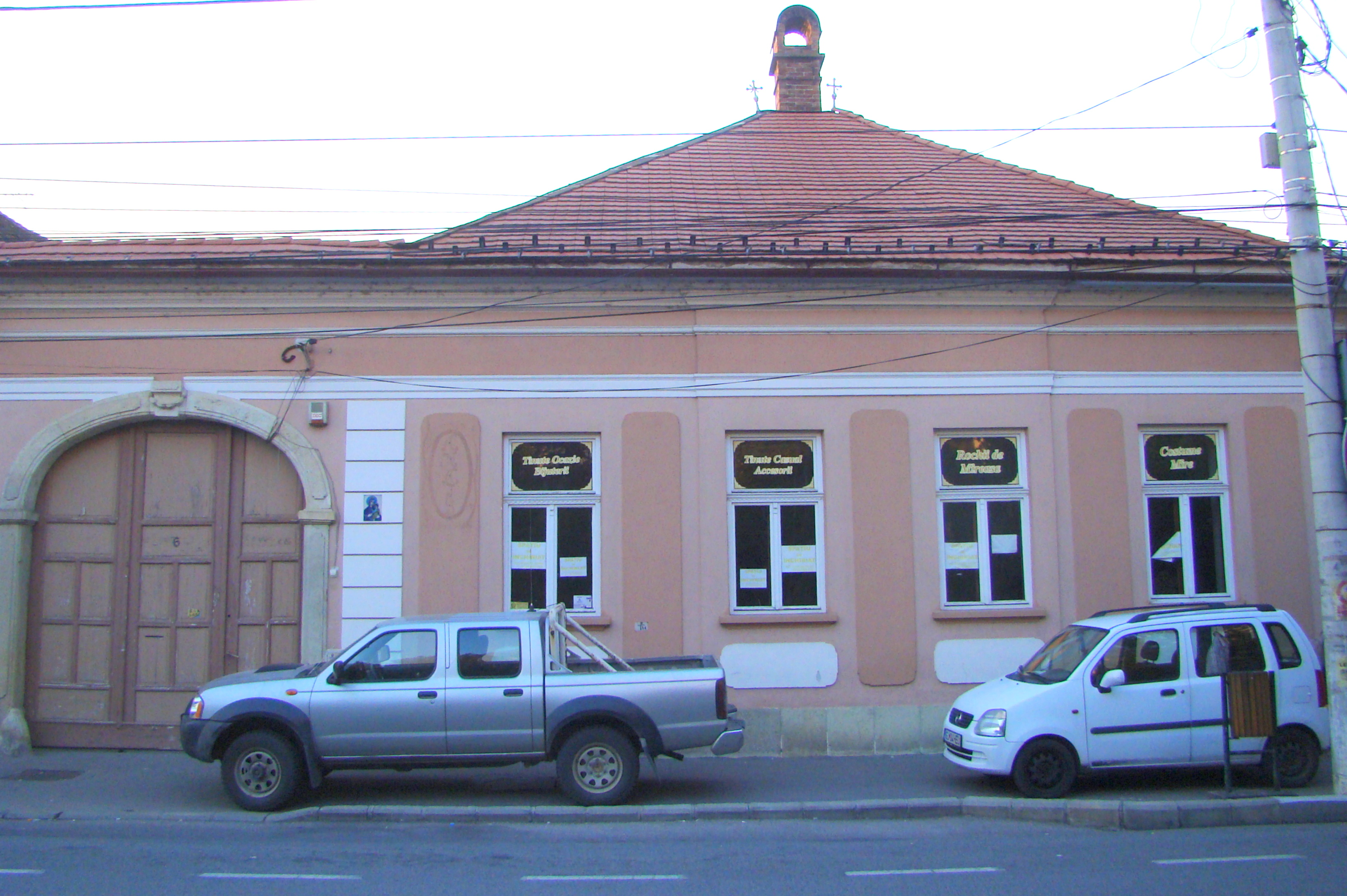 House, historic monument in Gherla, 1 Decembrie 1918 street, nr 6